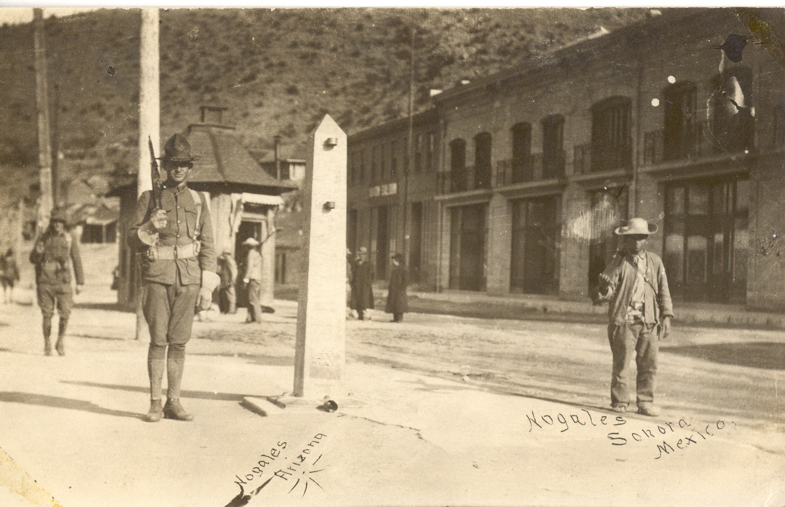 Photo of United States Army soldiers and Mexican soldiers guarding the international border (International Street) at Nogales, Arizona and Nogales, Sonora during the Mexican Revolution (1910-1920). The metal obelisk at the center is a border marker and still stands today.